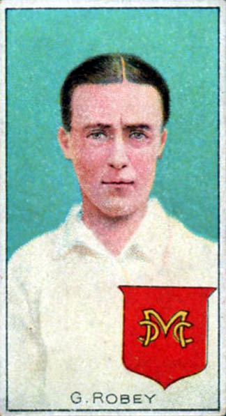 An English cigarette card depicting the music hall entertainer George Robey, wearing cricket flannels belonging to the Marylebone Cricket Club with whom he was a member since 1905.